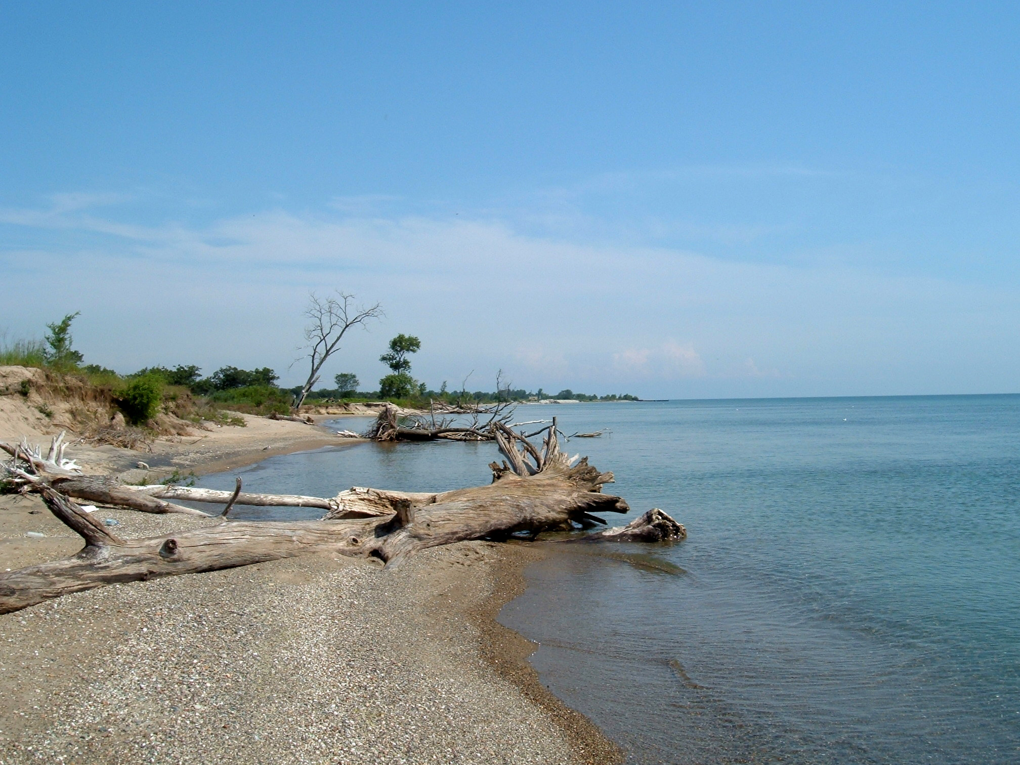 Beach area in the northern unit of Illinois Beach State Park. Photo taken in 2006 by Dave Piasecki.